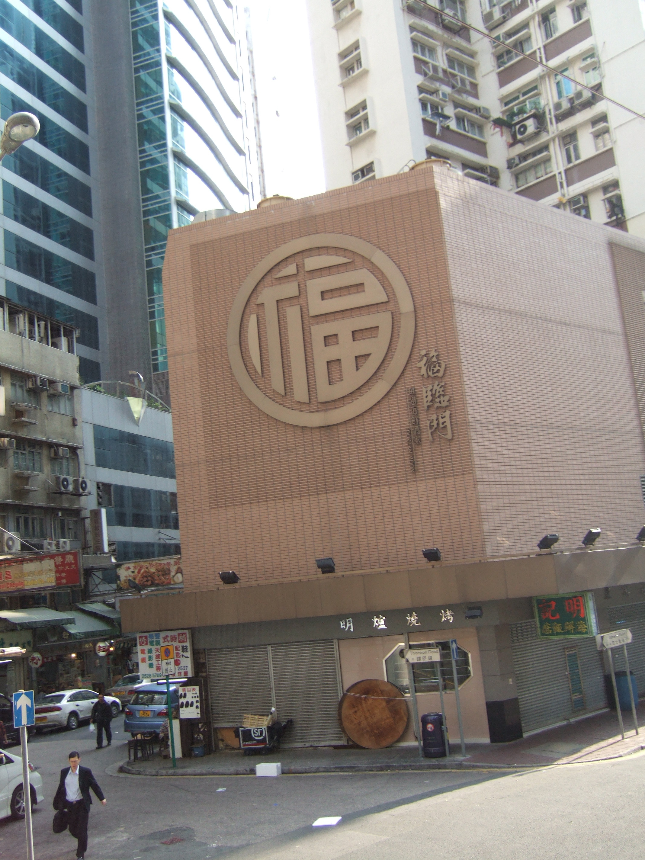 Fook Lam Moon 福臨門魚翅海鮮酒家, 香港灣仔莊士敦道